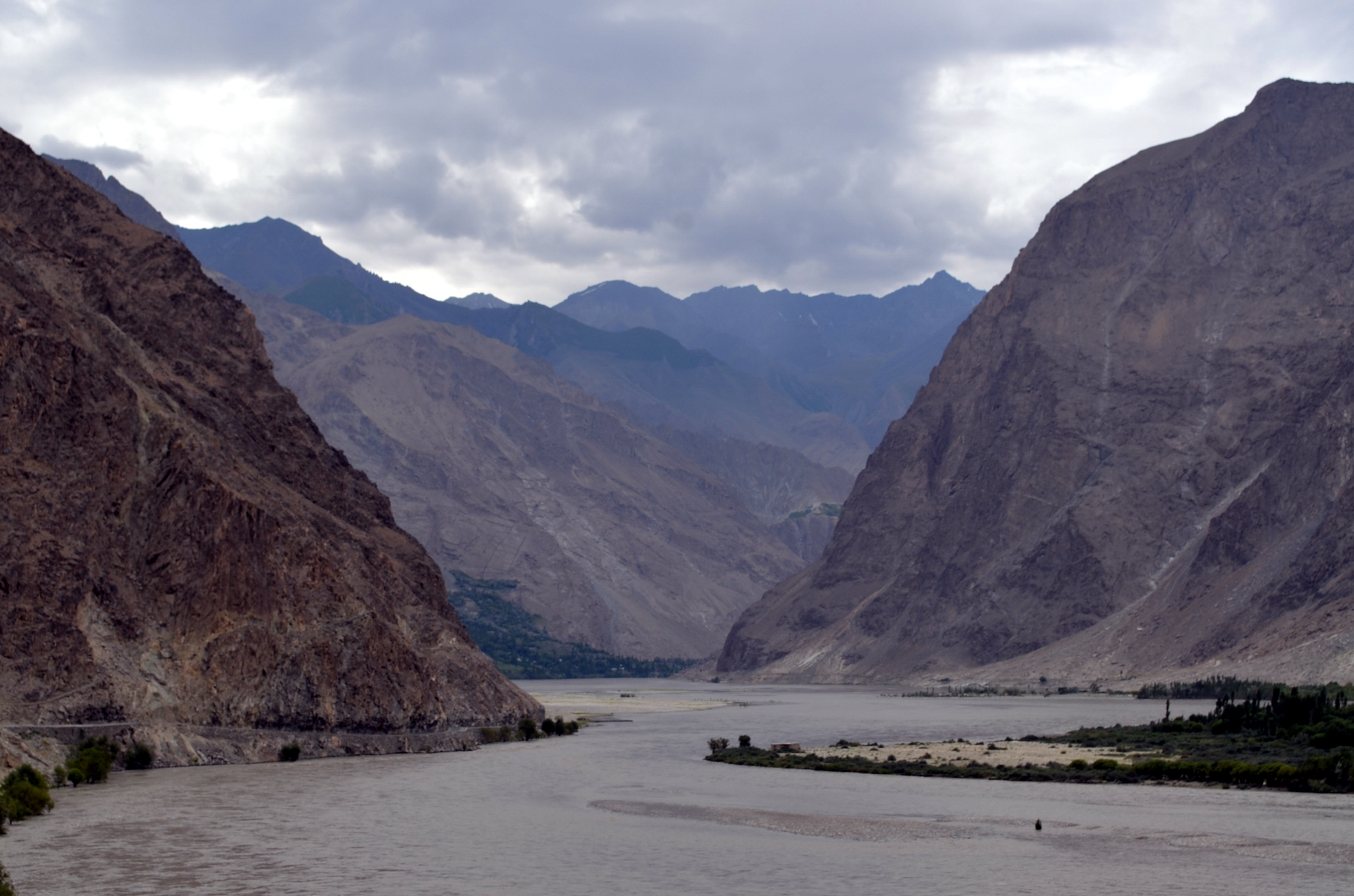 Kharfaq and Yugu